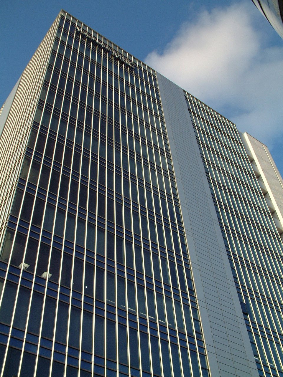 Photograph of Yokohama Media Business Center, the headquarters of Kanagawa Shimbun and Television Kanagawa (tvk), in Yokohama, Kanagawa, Japan. tvkの新社屋、横浜メディア・ビジネスセンター。tvkは1～4階を使用（1Fの横浜ニュースハーバーはtvkが運営）。ミューコムなど関連会社は5階、6階から上は神奈川新聞社や関東学院大学、一般企業が入っている。Drifter撮影